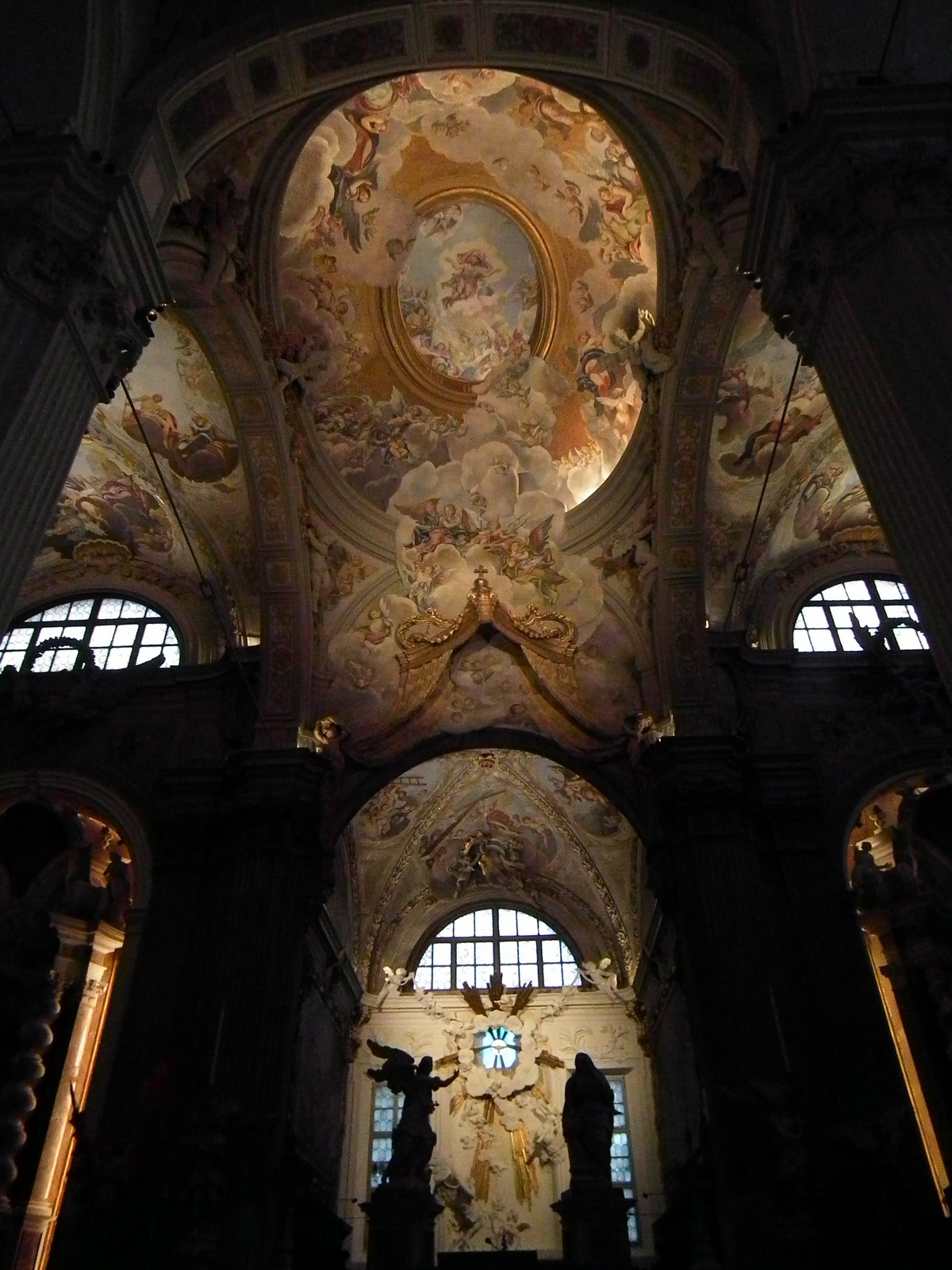 Udine Cathedral Native nameDuomo di UdineLocationUdine, ItalyCoordinates46° 03′ 44.59″ N, 13° 14′ 13.43″ E Established1236 (Began construction)